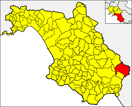 Locator map of the municipality of Montesano sulla Marcellana (red) within the Province of Salerno